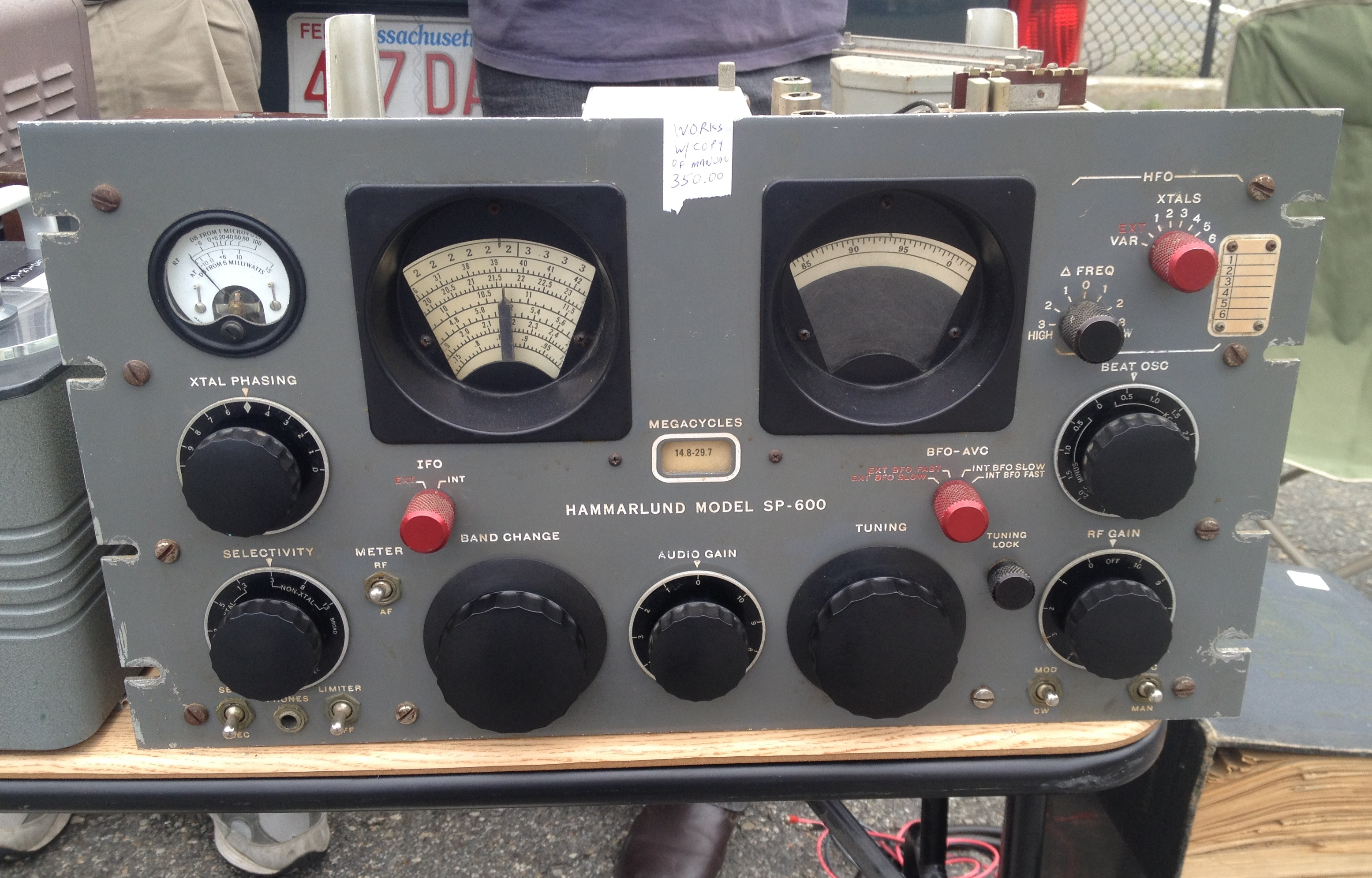 Front panel of a Hammarlund SP-600 communications receiver displayed at the MIT Flea market.